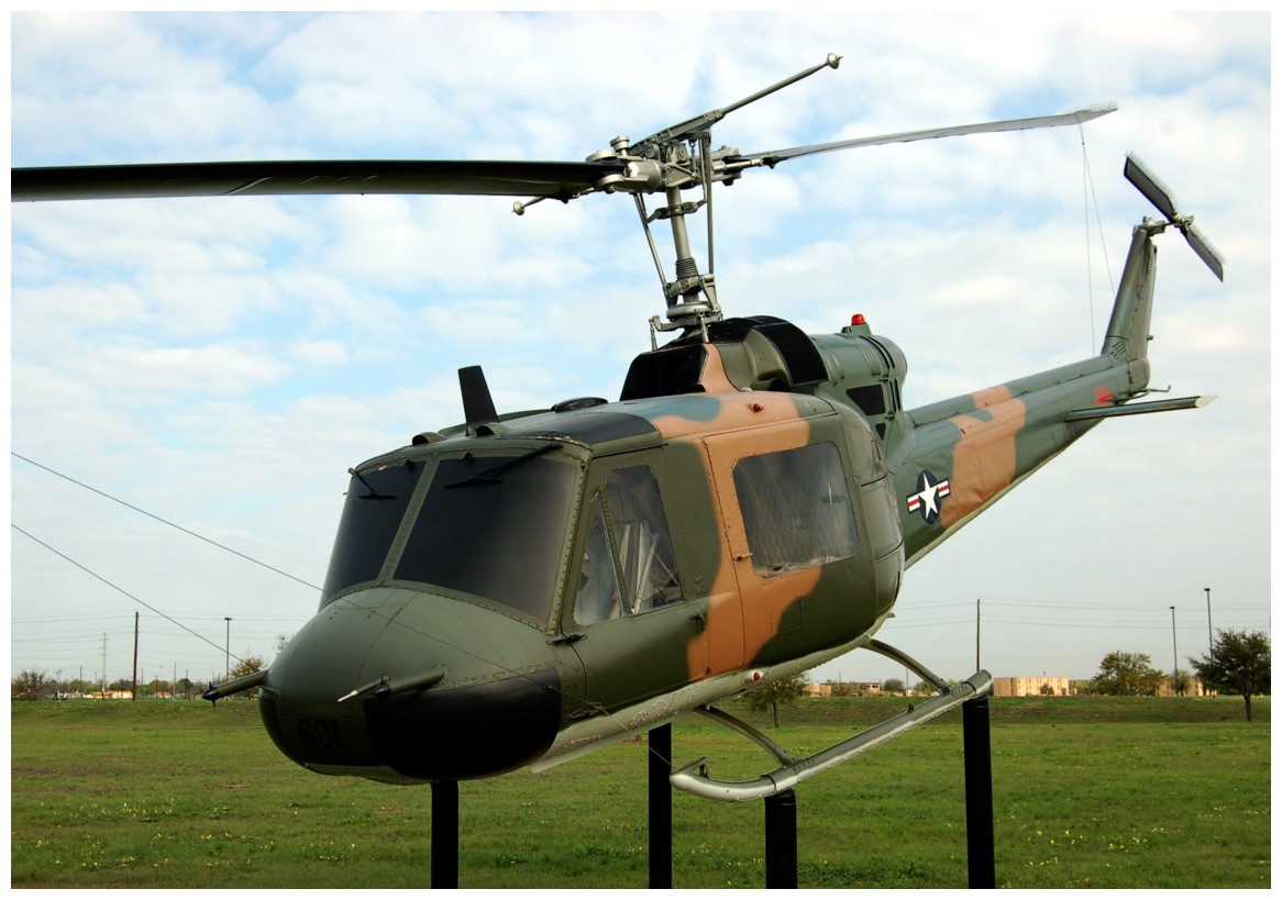 Front view of a Bell UH-1B Iroquois. Lackland Air Force Base, San Antonio, Texas (March 2007). This image was taken in direct support of the Aviation WikiProject.